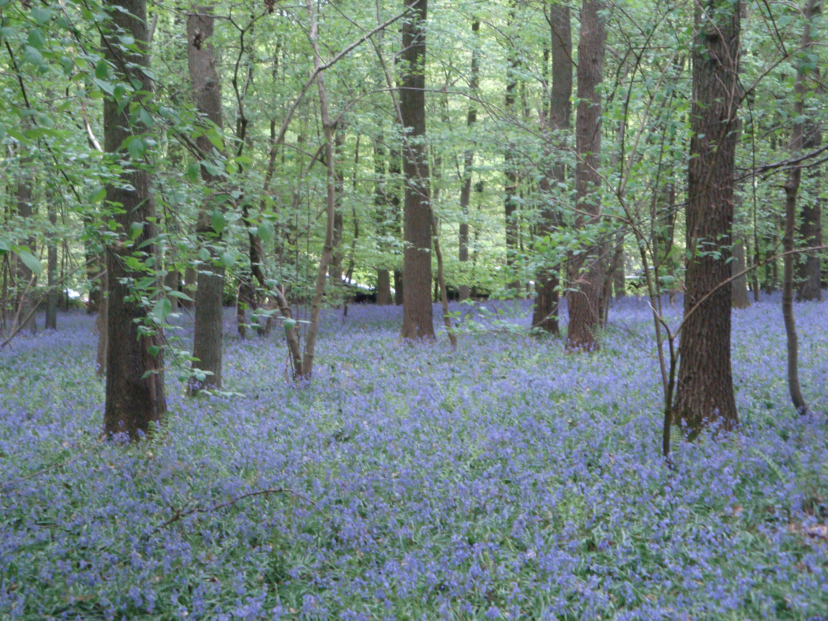 A bluebell wood in Belgium; Hallerbos (Flemish name) or Bois de Halle (French name)